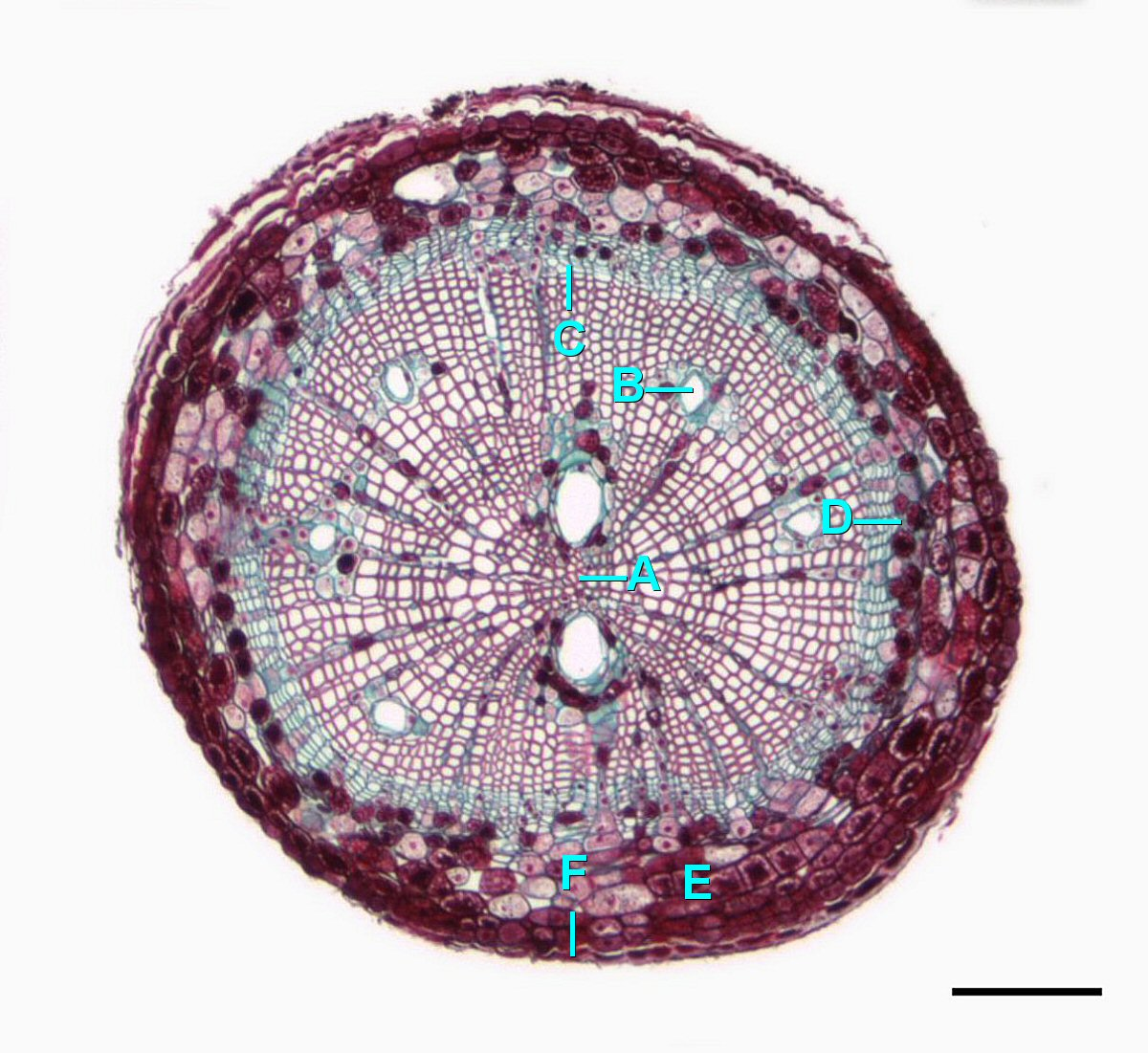 Photomicrograph of a young root of a Pinus tree. A=Primary xylem, B=Resin duct, C=Secondary phloem, D=Vascular cambium, E=Pericycle, F=Periderm. Scale=0.2mm.